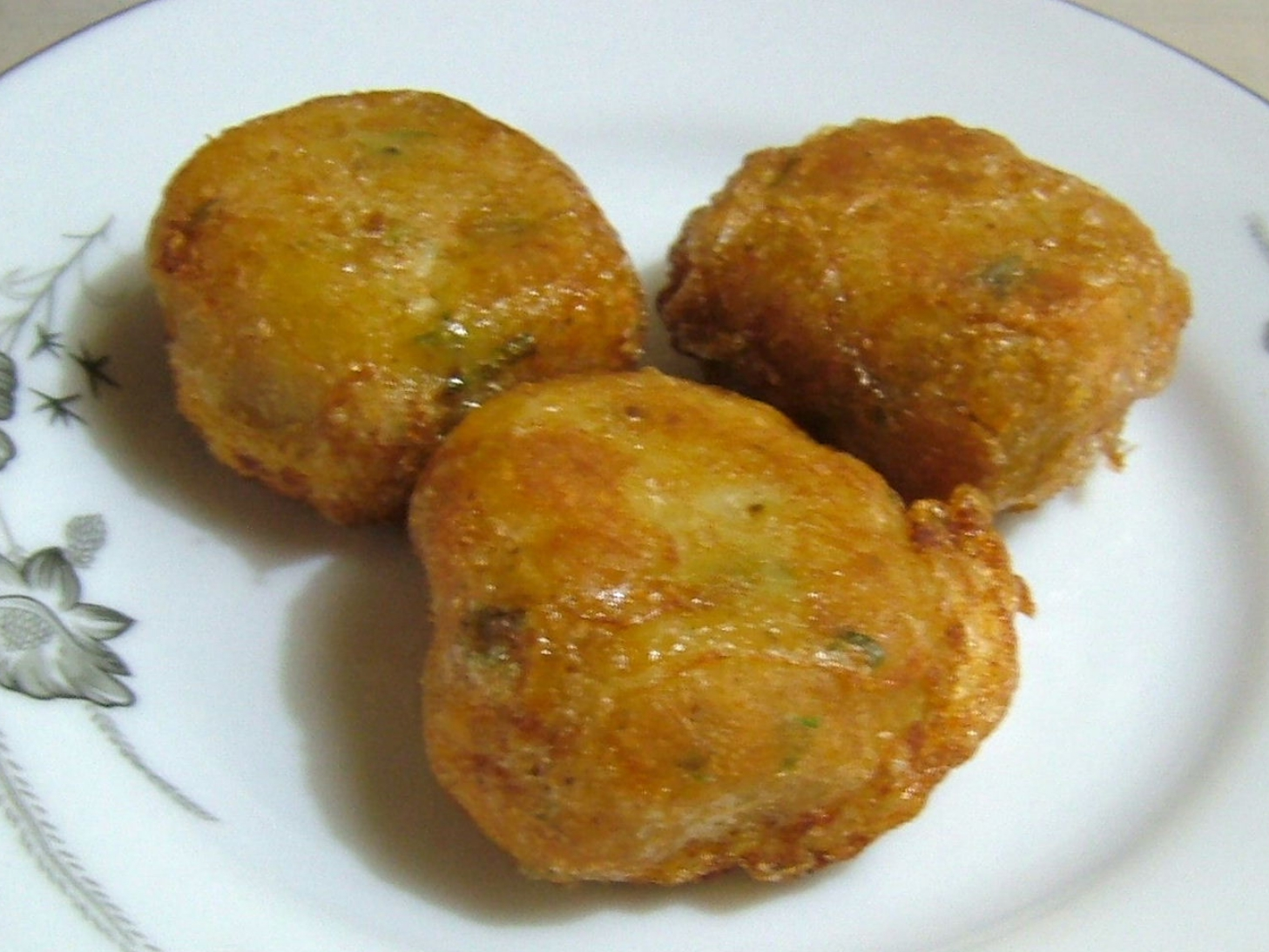 Perkedel kentang dengan daging